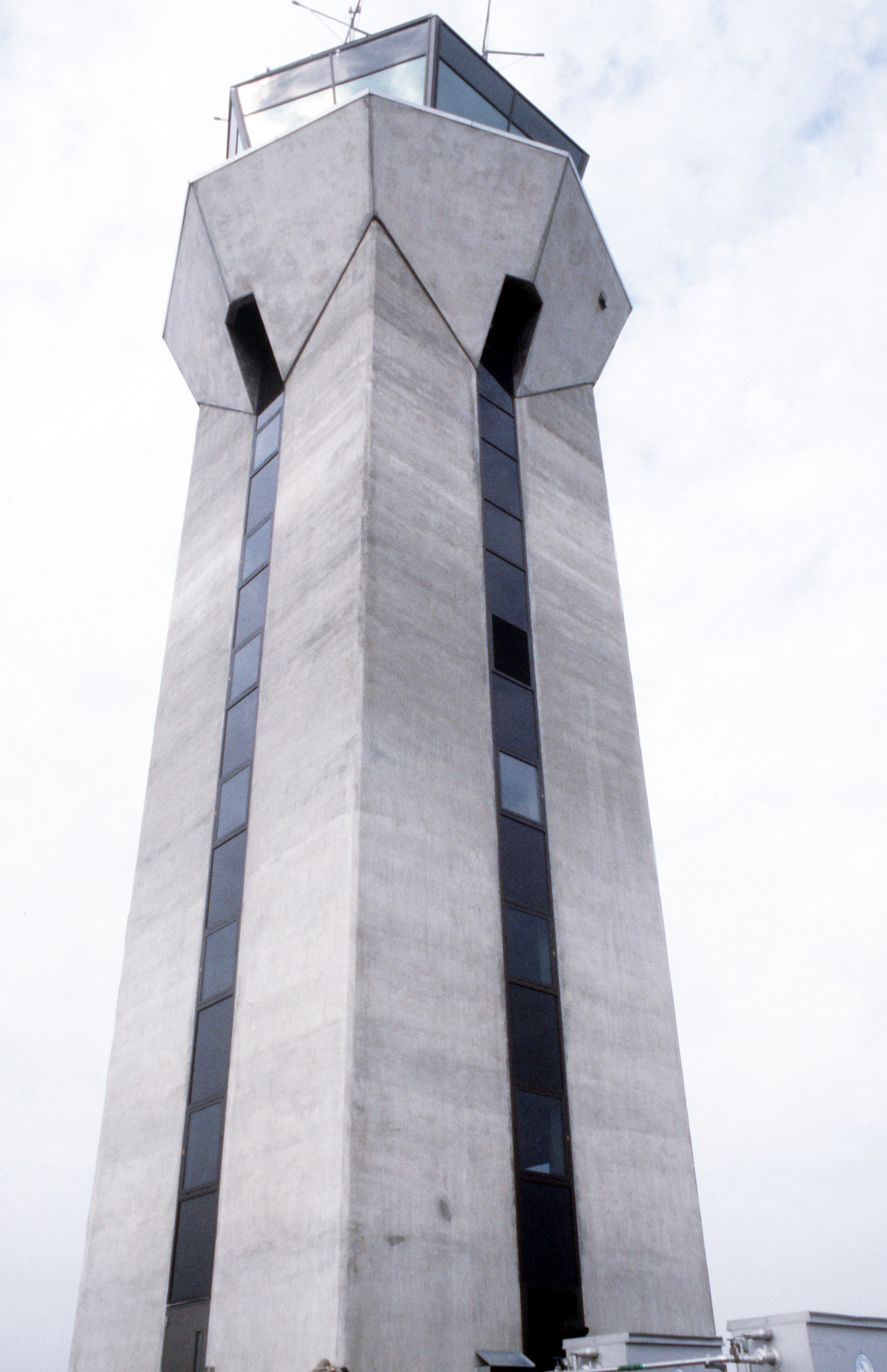 The new base control tower. Location: MATHER AIR FORCE BASE, CALIFORNIA (CA) UNITED STATES OF AMERICA (USA)